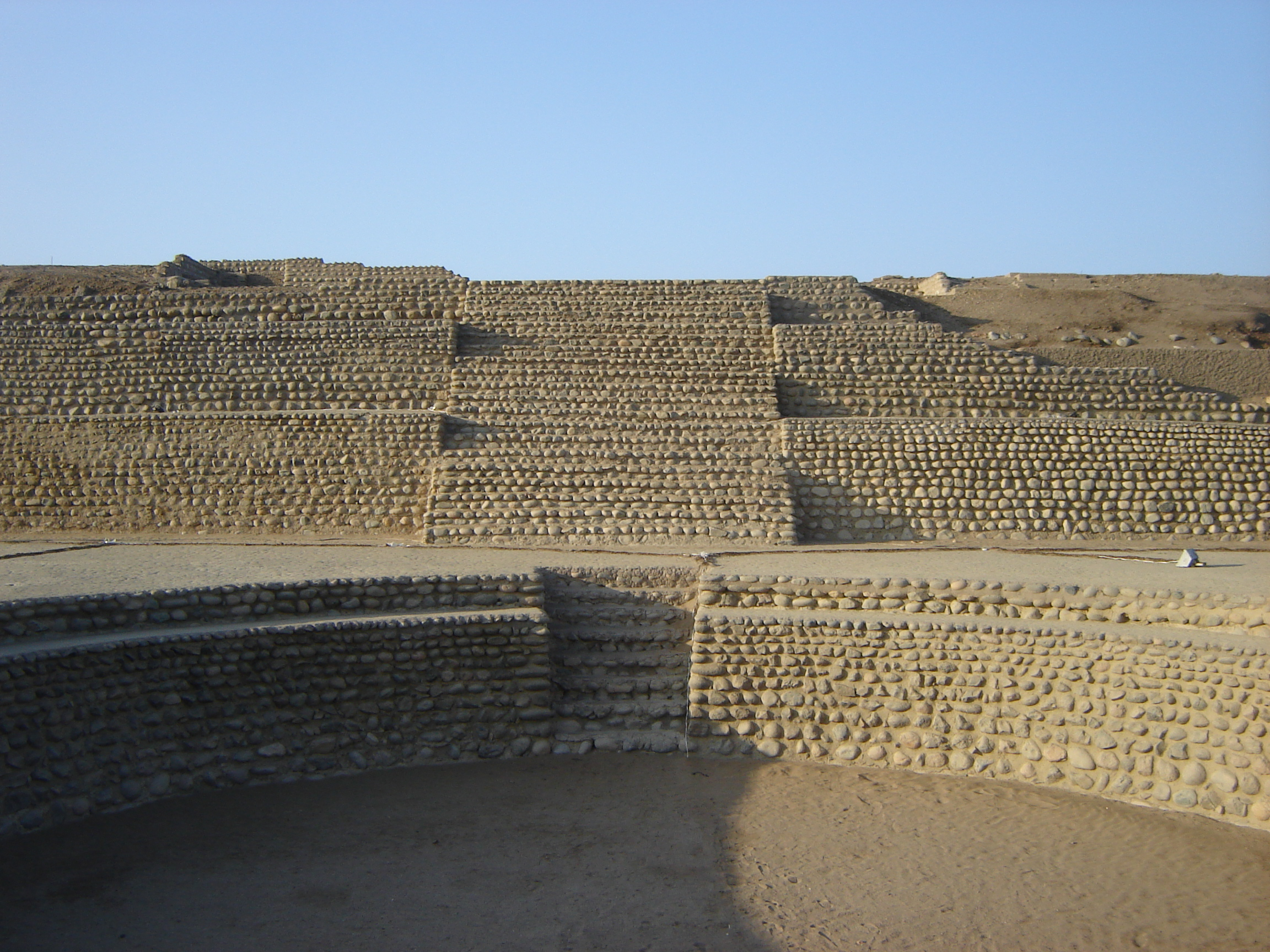 Circular sunken plaza of the Late Temple at Bandurria archaeological site.